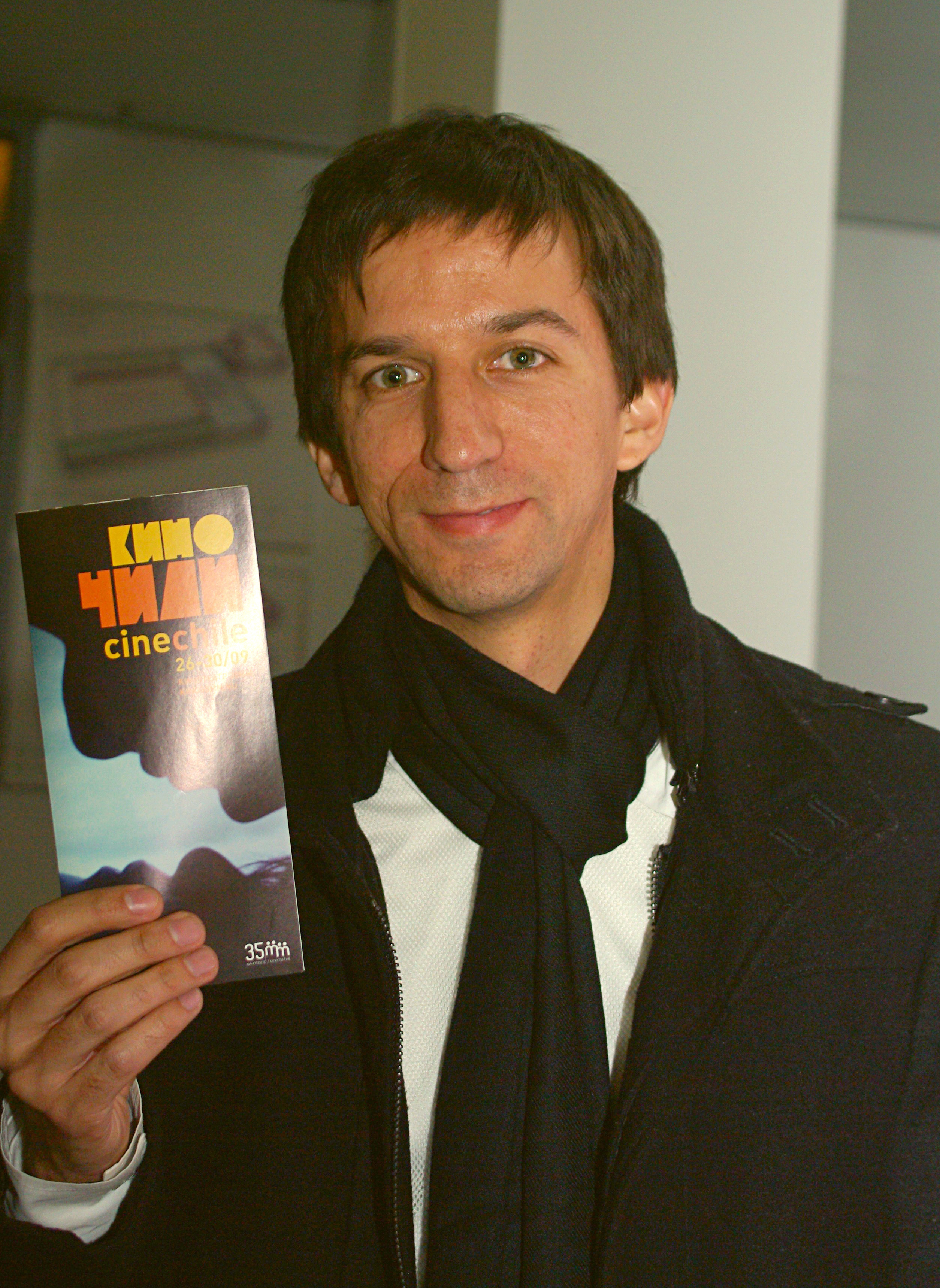 Film director Matias Bize opens the Chilean program at the moscovite cinema 35 mm, September 2012